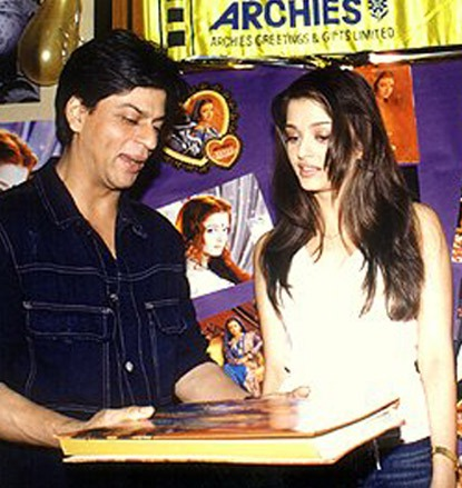 Shahrukh Khan with co-star Aishwarya Rai at the CD-Rom release of their film Devdas (2002)